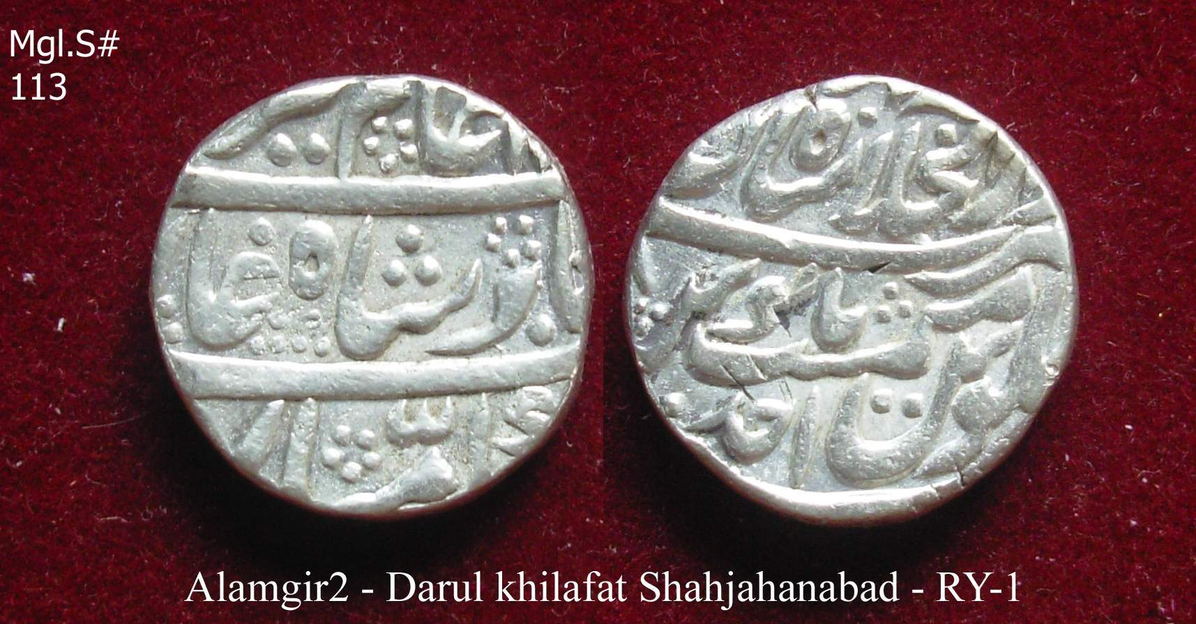 A silver rupee coin from my cabinet